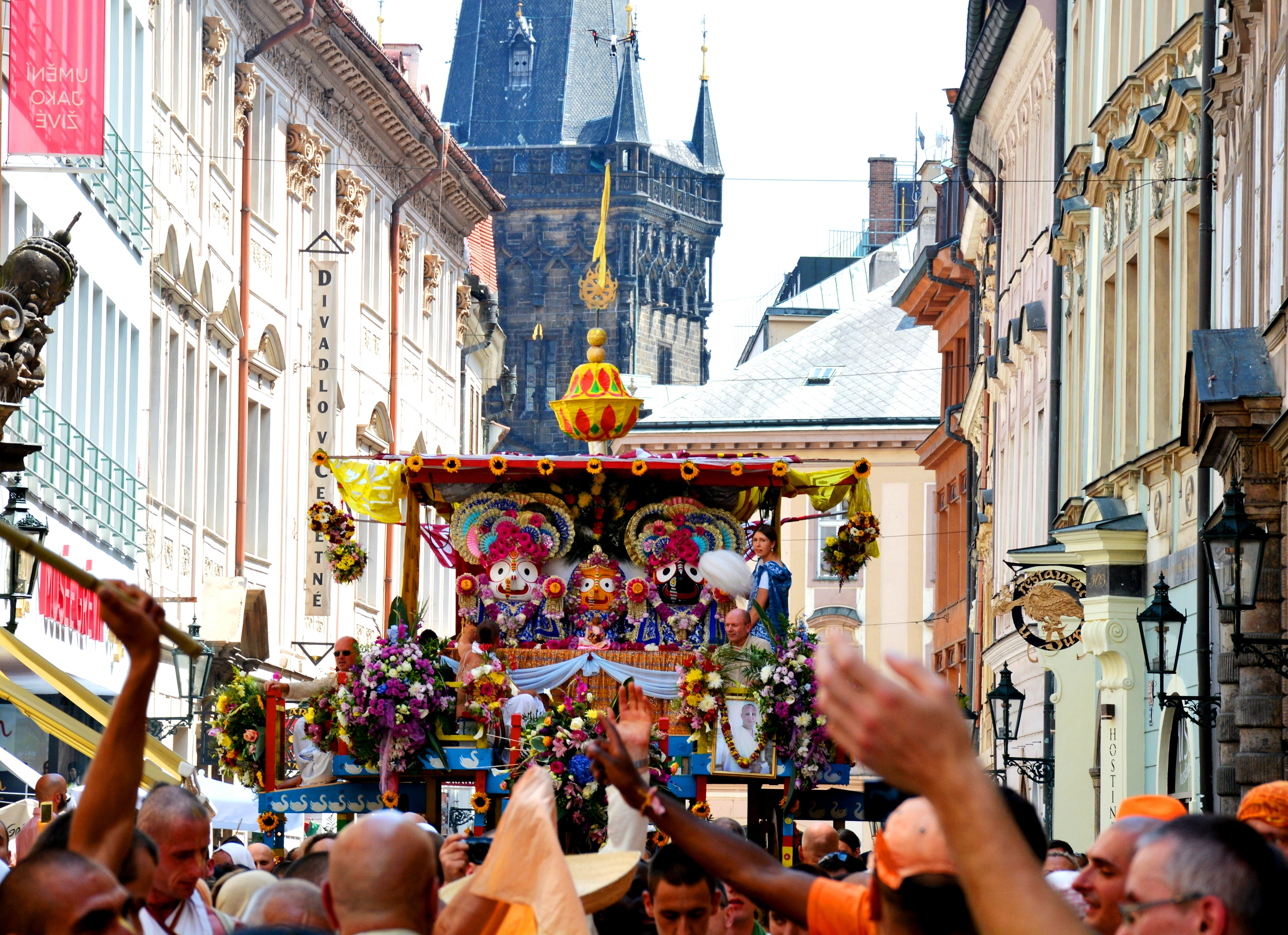 Ratha Yatra, Celetná Street, Prague, Czech Rep.